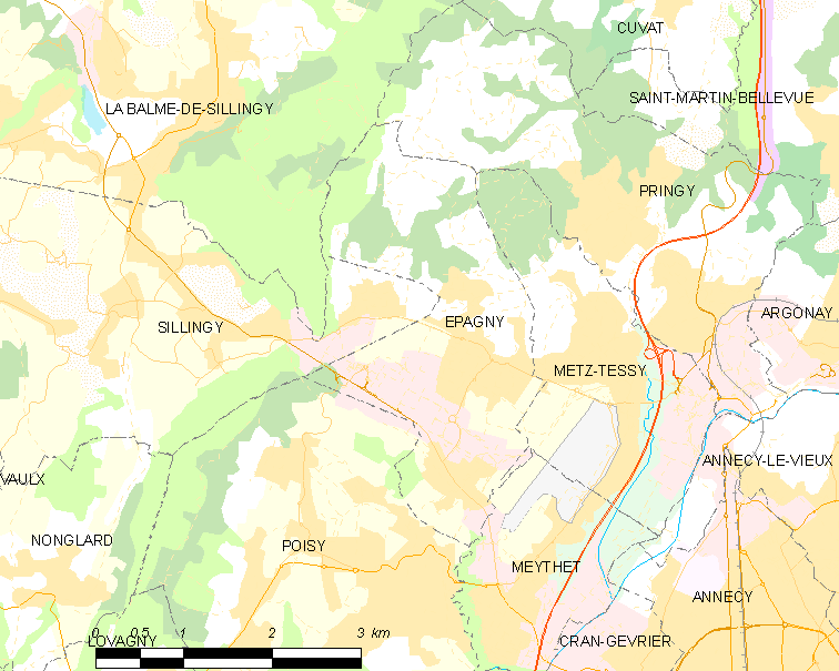 Map of French municipality Épagny